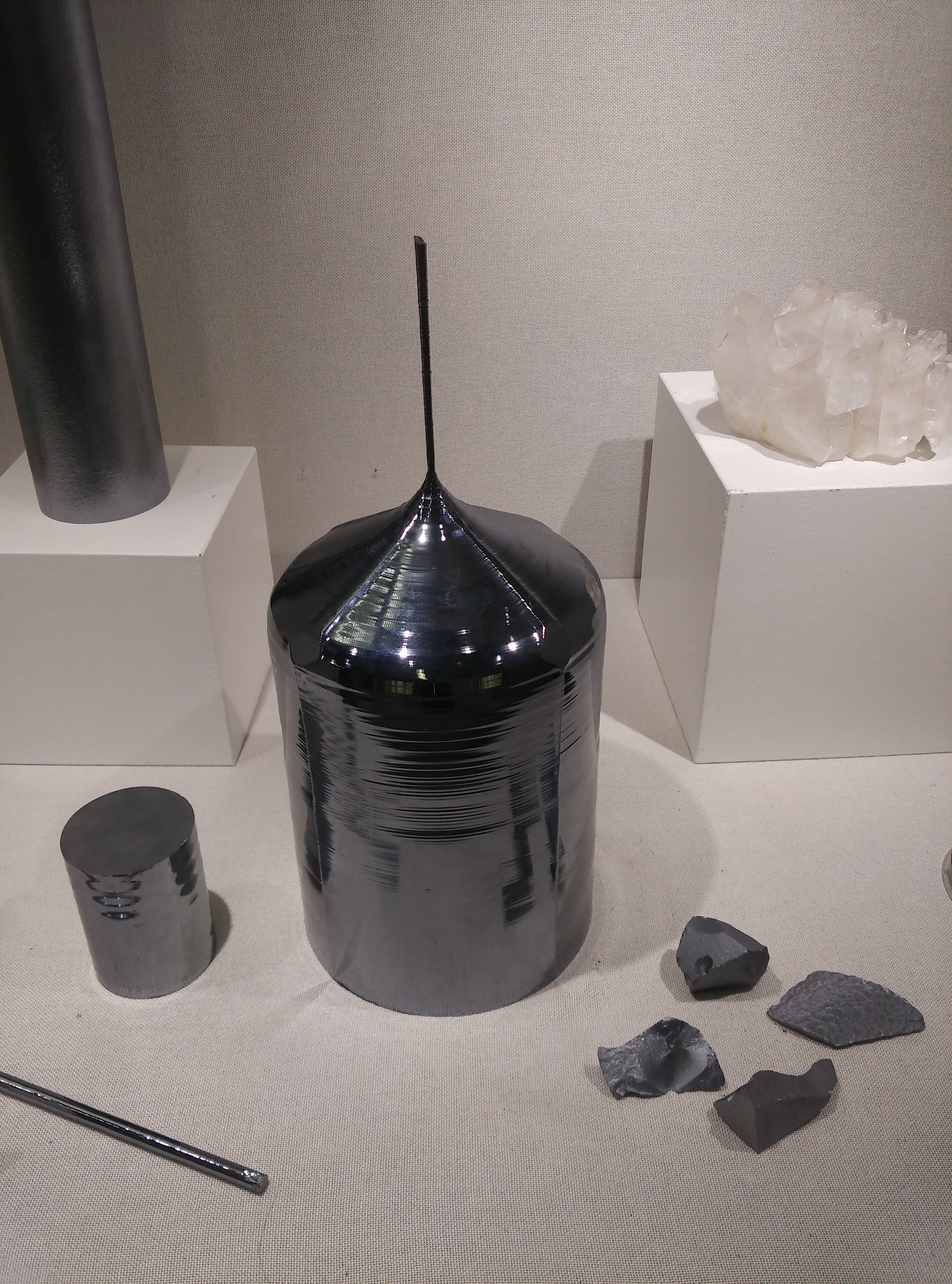 A monocrystalline silicon ingot and several silicon rods on display in the Museum of Mineralogy in Munich